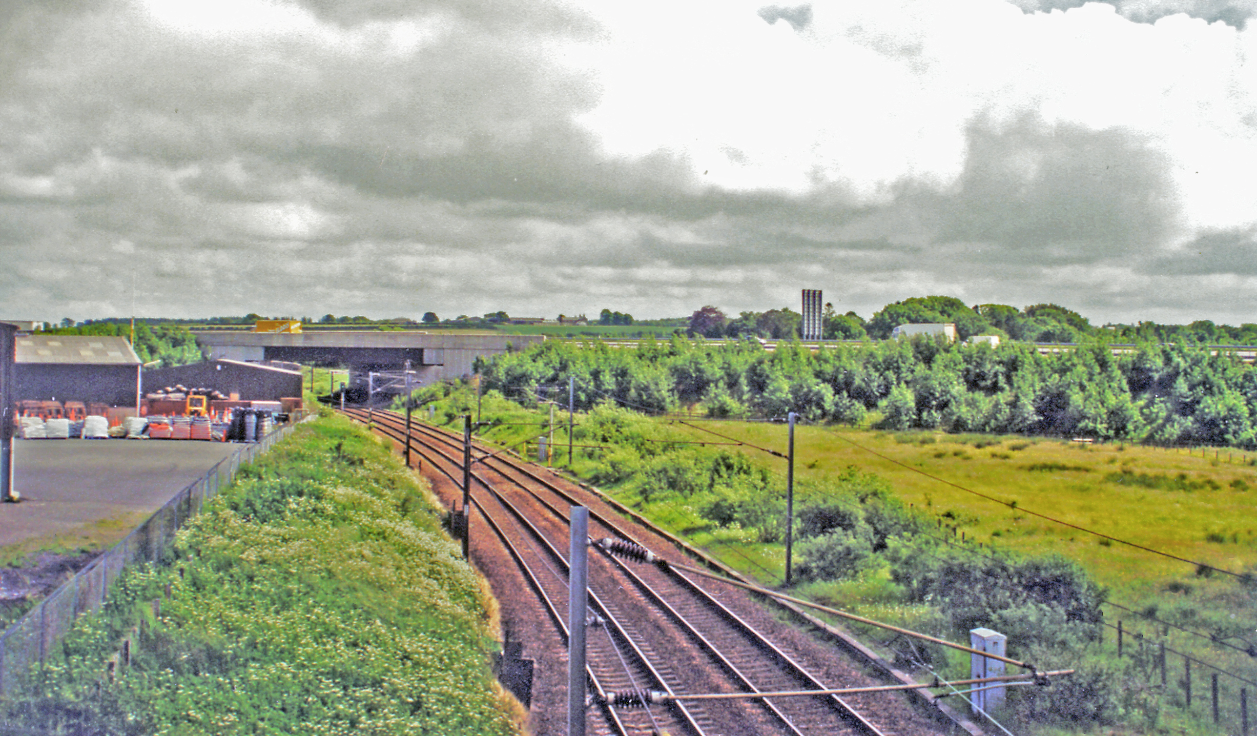 Site of former Kirtlebridge station, WCML 2000. View southward from B722 to the large bridge of the new A74(M). This is situated where the station had been, until it closed 13/6/60 to passengers (6/4/64 to goods). The view is up the ex-Caledonian Railway (Glasgow - Carlisle) section of the West Coast Main Line, electrified 1974. Off to the right used to be the branch line to Annan (Shawhill) and over the Solway Viaduct to Brayton on the Maryport & Carlisle Railway; this lasted to Brayton only until 20/5/21, to Annan for passengers until 27/4/31 (goods 28/2/55, however).